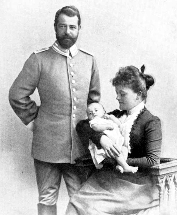 Captain Tom von Prince, wife Magdalena and child, before 1908